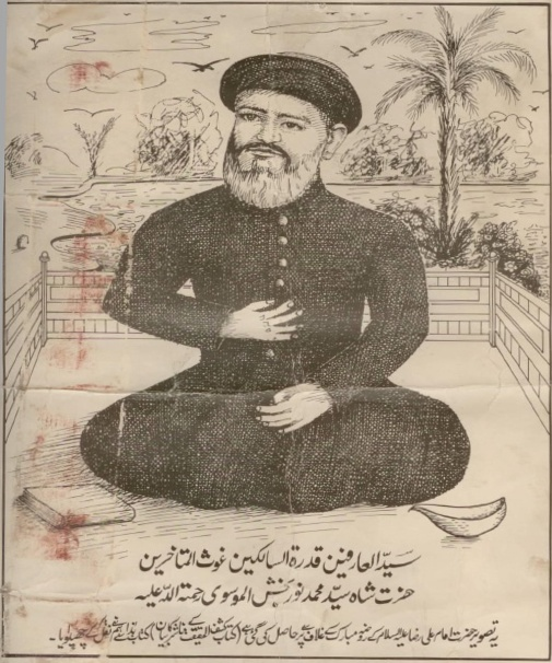 this painting is created by the the faithful of syed muhammad noorbaksh (Iranian saint) this photo is created more than 100 years so it has expired the liecence